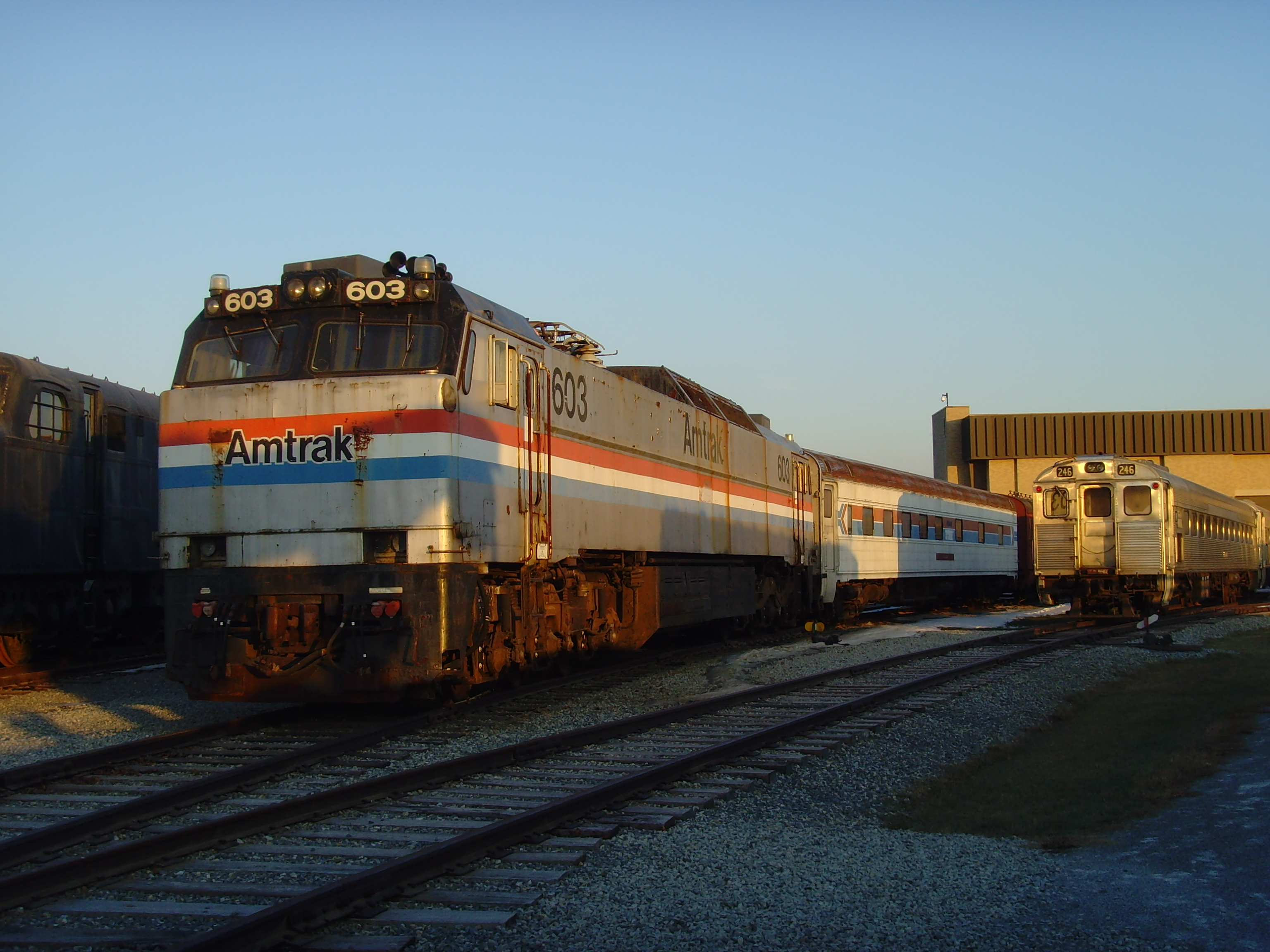 0387 Strasburg - Railroad Museum of Pennsylvania